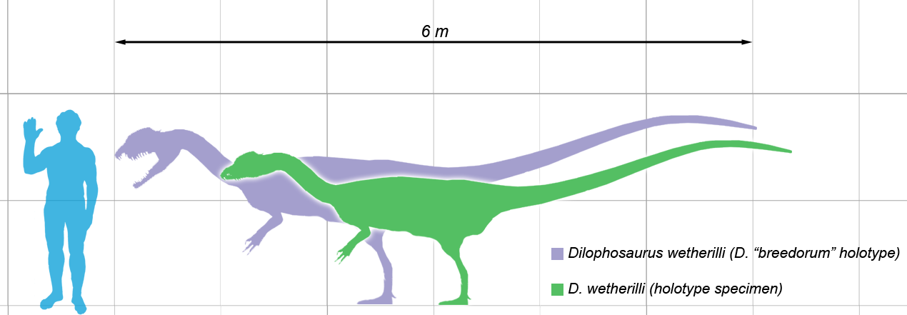 Size comparison of Dilophosaurus wetherilli, and a human. Modified from skeletal diagrams by Ville Sinkkonen. Matches measurements listed in Paul, G. S. (1988). Predatory Dinosaurs of the World. P. 268 and Paul, G. S. (2010). The Princeton Field Guide to Dinosaurs. P. 75